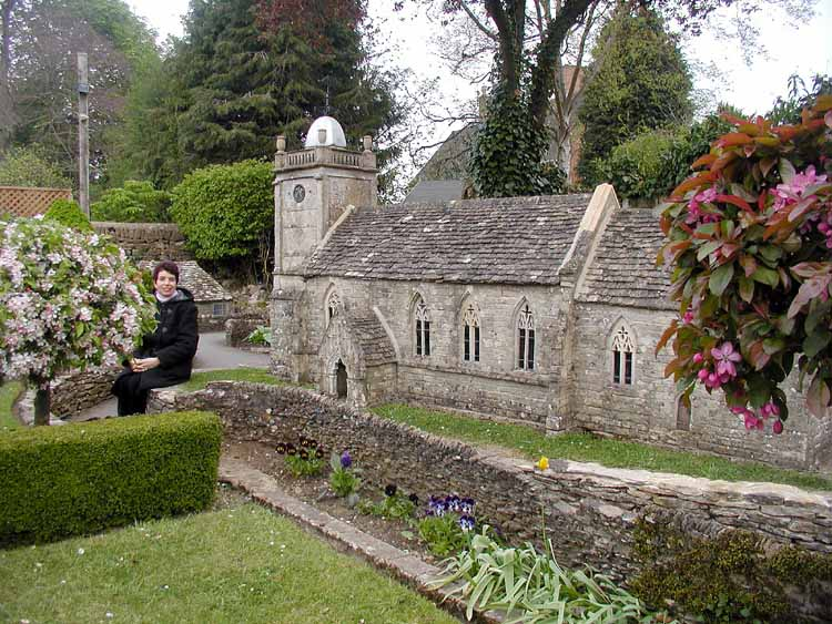 Part of the model village at Bourton-on-the-Water, Gloucestershire, England.